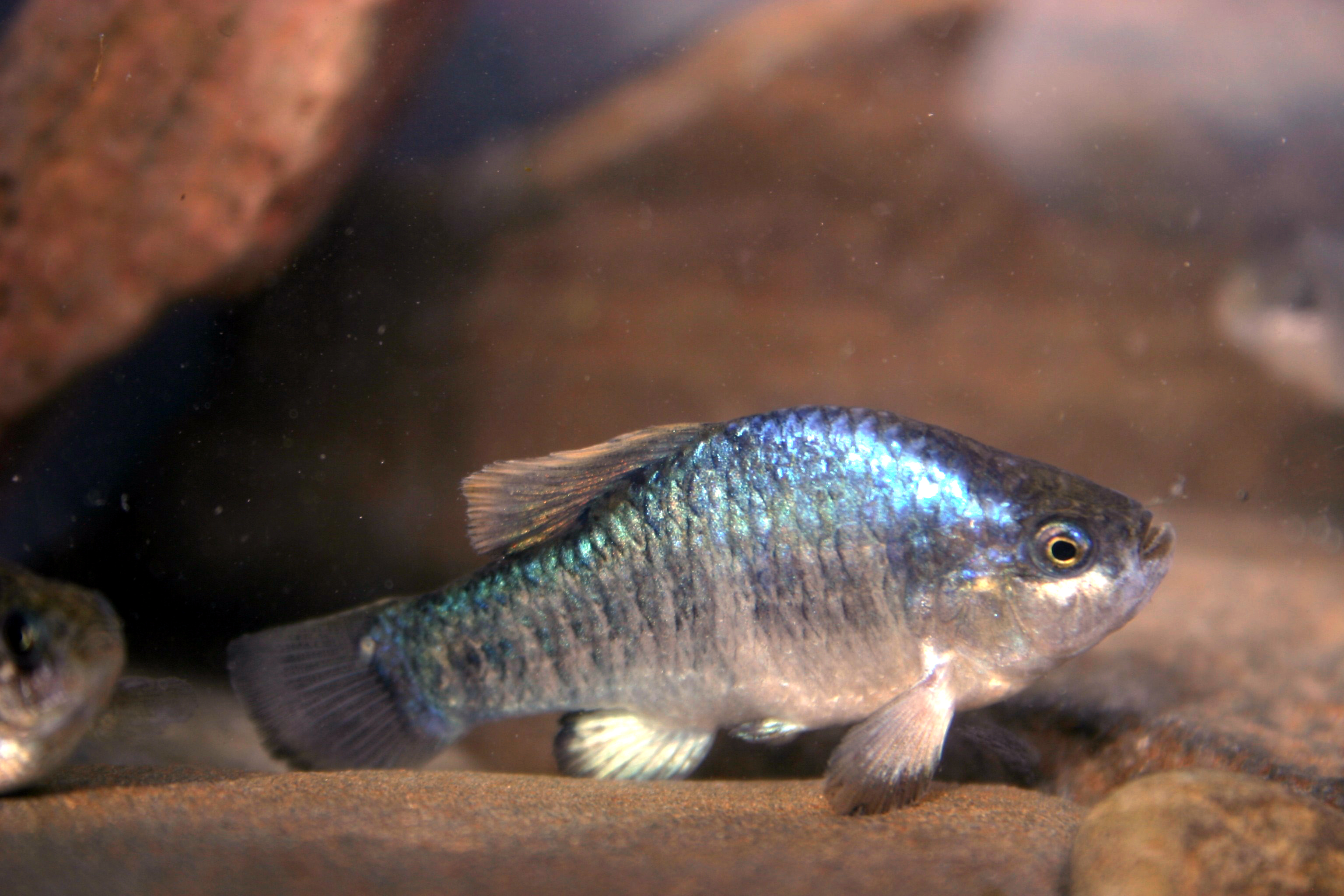 Owens pupfish (cyprinodon radiosus), Fish Slough Ecological Reserve. CDFW photo by Joe Ferreira.